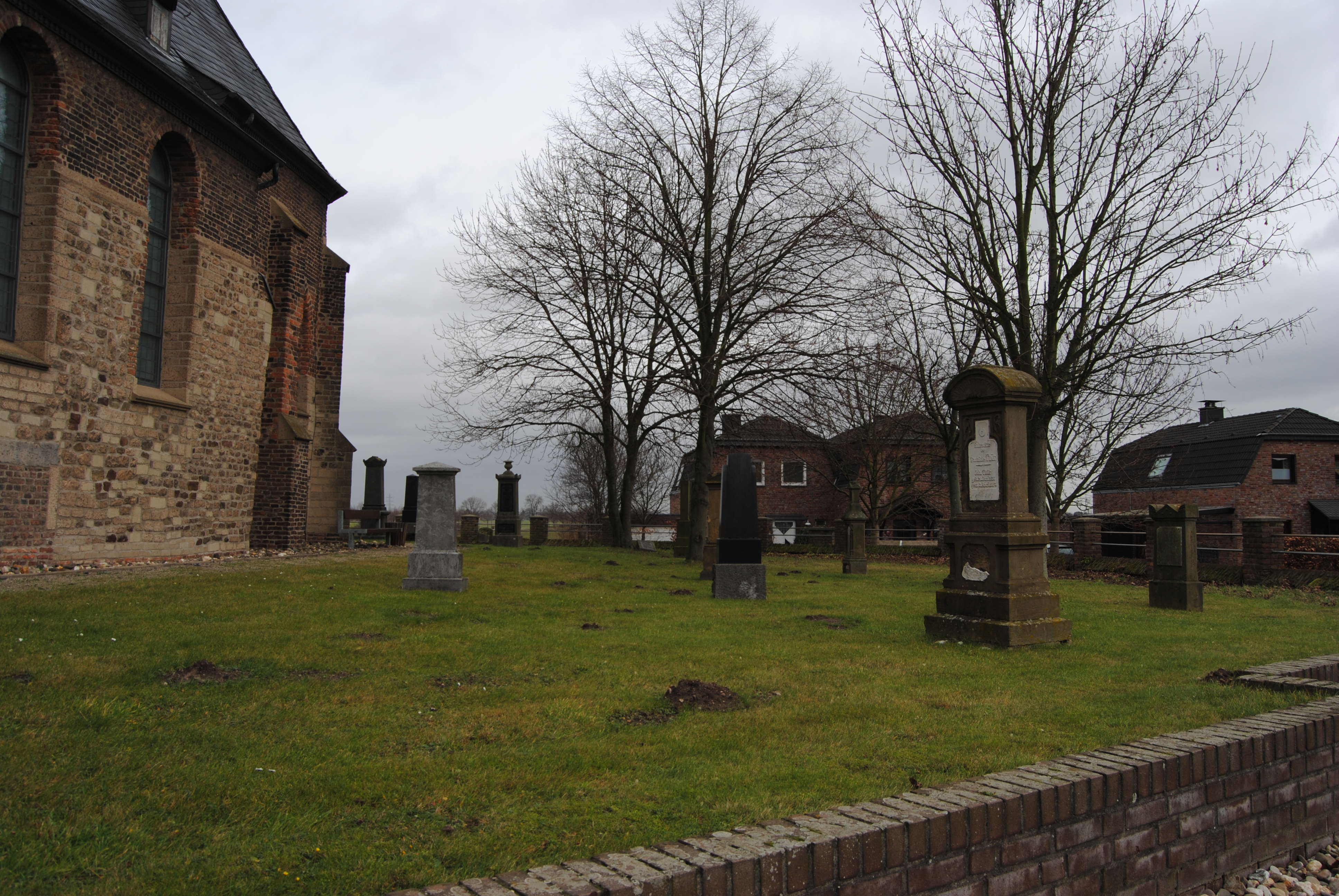 Evangelical Church of Budberg in Rheinberg in North Rhine-Westphalia